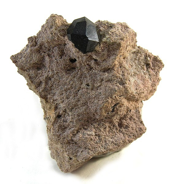 Spessartine Locality: Ruby Mountain, Nathrop, Chaffee County, Colorado, USA (Locality at ) An absolutely TEXTBOOK crystal (0.7 cm) of spessartine, isolated on matrix - this is an OLD Colorado specimen and hard to obtain! Gary hansen collection 4.6 x 4.3 x 1.5cm